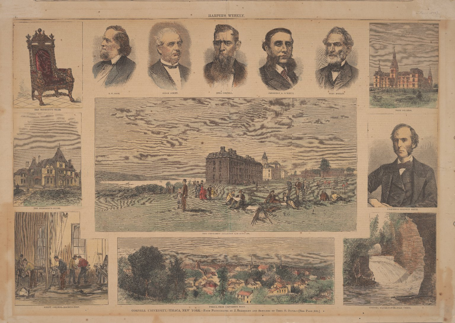 Cornell pictorial spread in Harper's Weekly, June 21, 1873